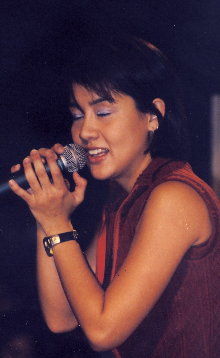 Nicole Theriault at Chiang Mai University